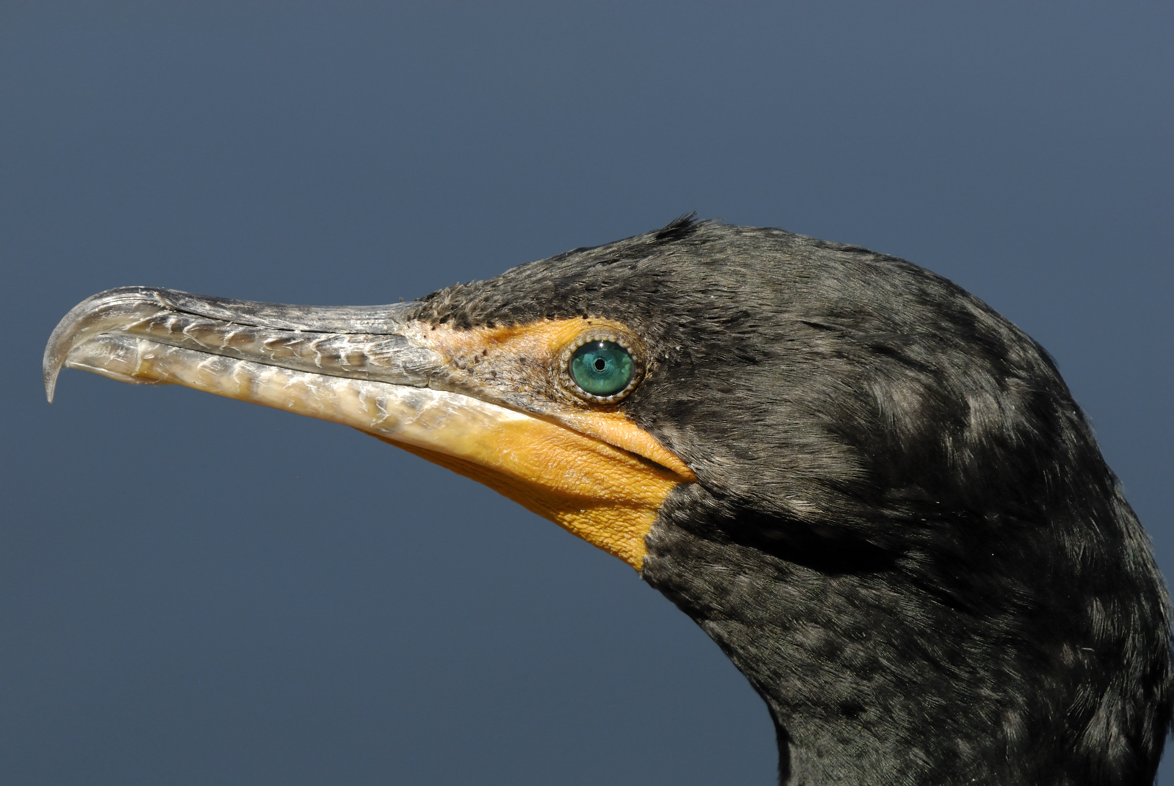 Double-crested Cormorant (Phalacrocorax auritus) Anhinga Trail Everglades National Park